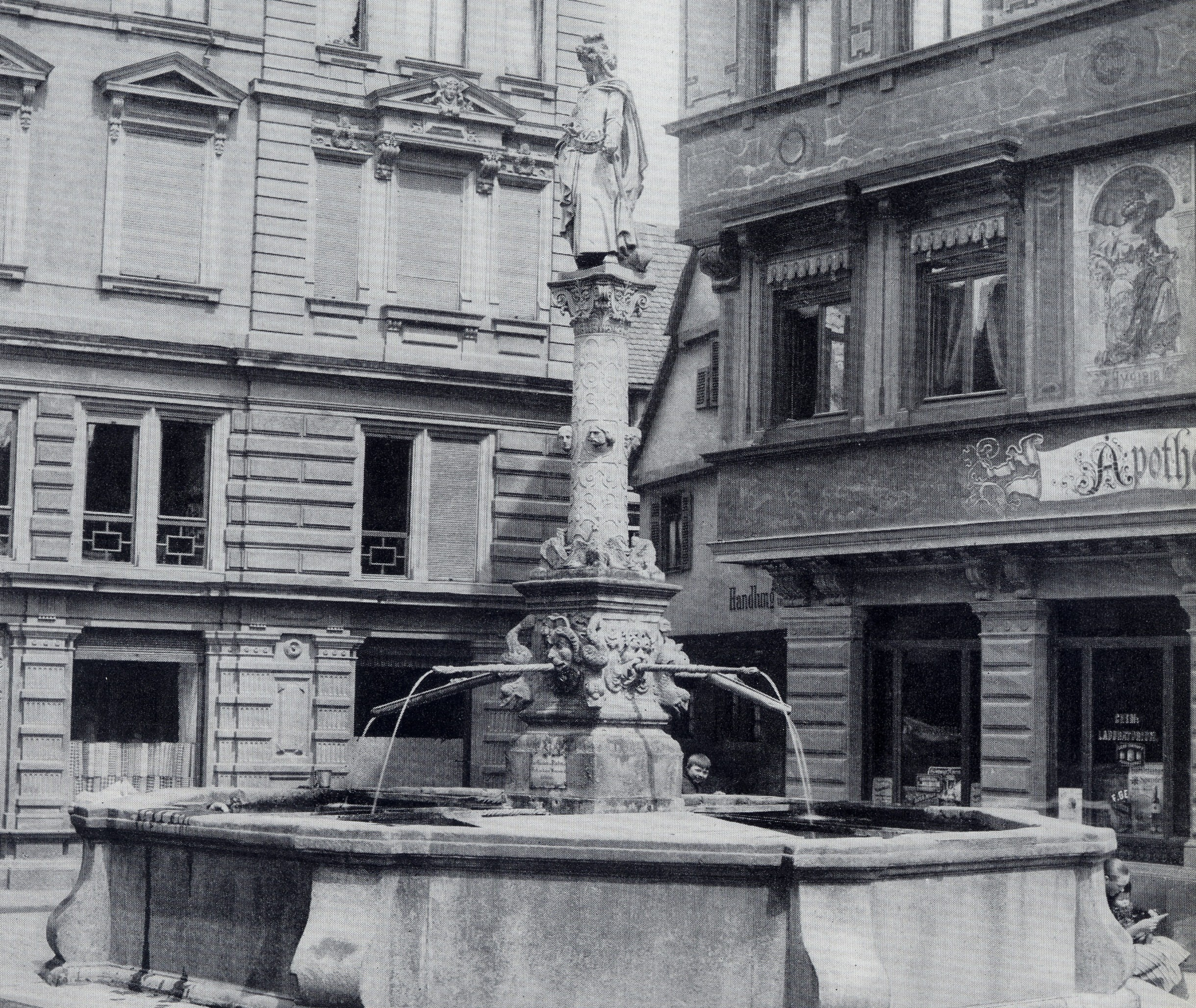 A well in Heilbronn with Heilbronnia, 1900